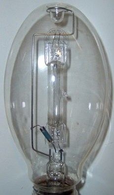 Closeup Of a 175 watt mercury-vapor lamp bulb. The inner quartz tube has mercury and argon gas inside it, and produces light by an electric arc through the mercury vapor. The small cylinder below the inner tube is a resistor to provide a small current to an electrode that creates a small starting arc to start the main arc. The outer bulb has an optical filter material that blocks the dangerous short-wavelength (UV-C) ultraviolet light the arc produces.